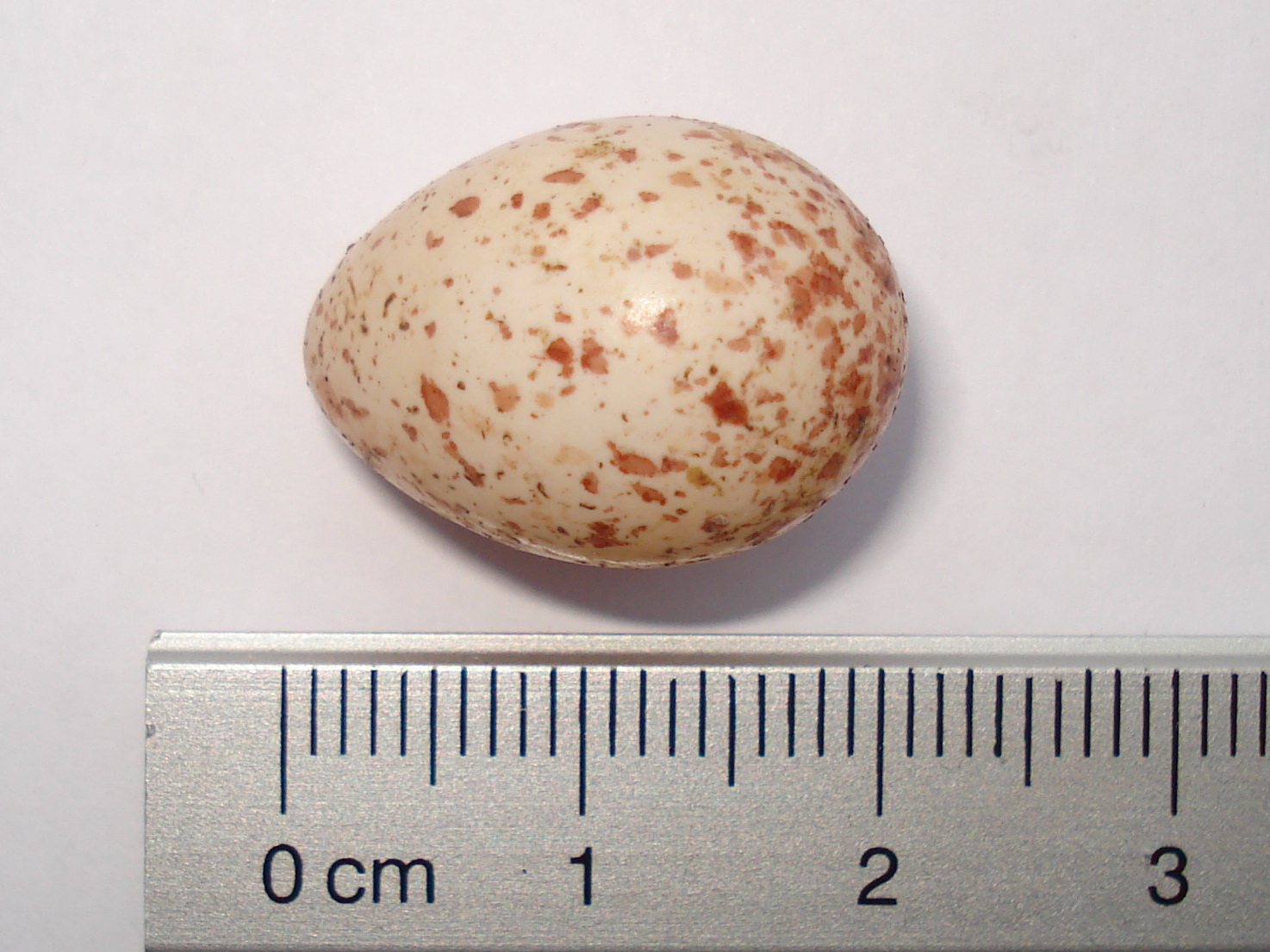 unfertilised egg of an Eurasian Nuthatch (Sitta europaea)}